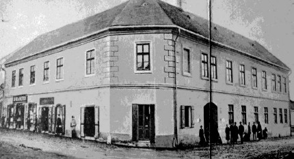 The Greek-Orthodox Gymnasium in Brad, 1900